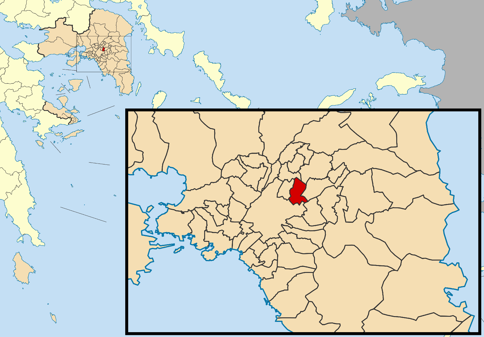 Locator map for Filothei-Psychiko municipality in Greek region Attica (2011)